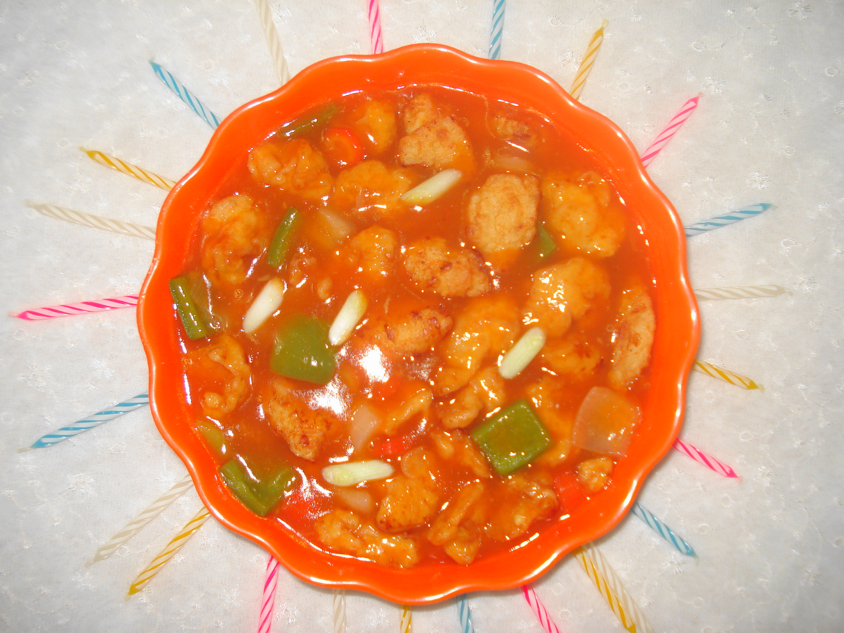 Chinese Sweet and Sour